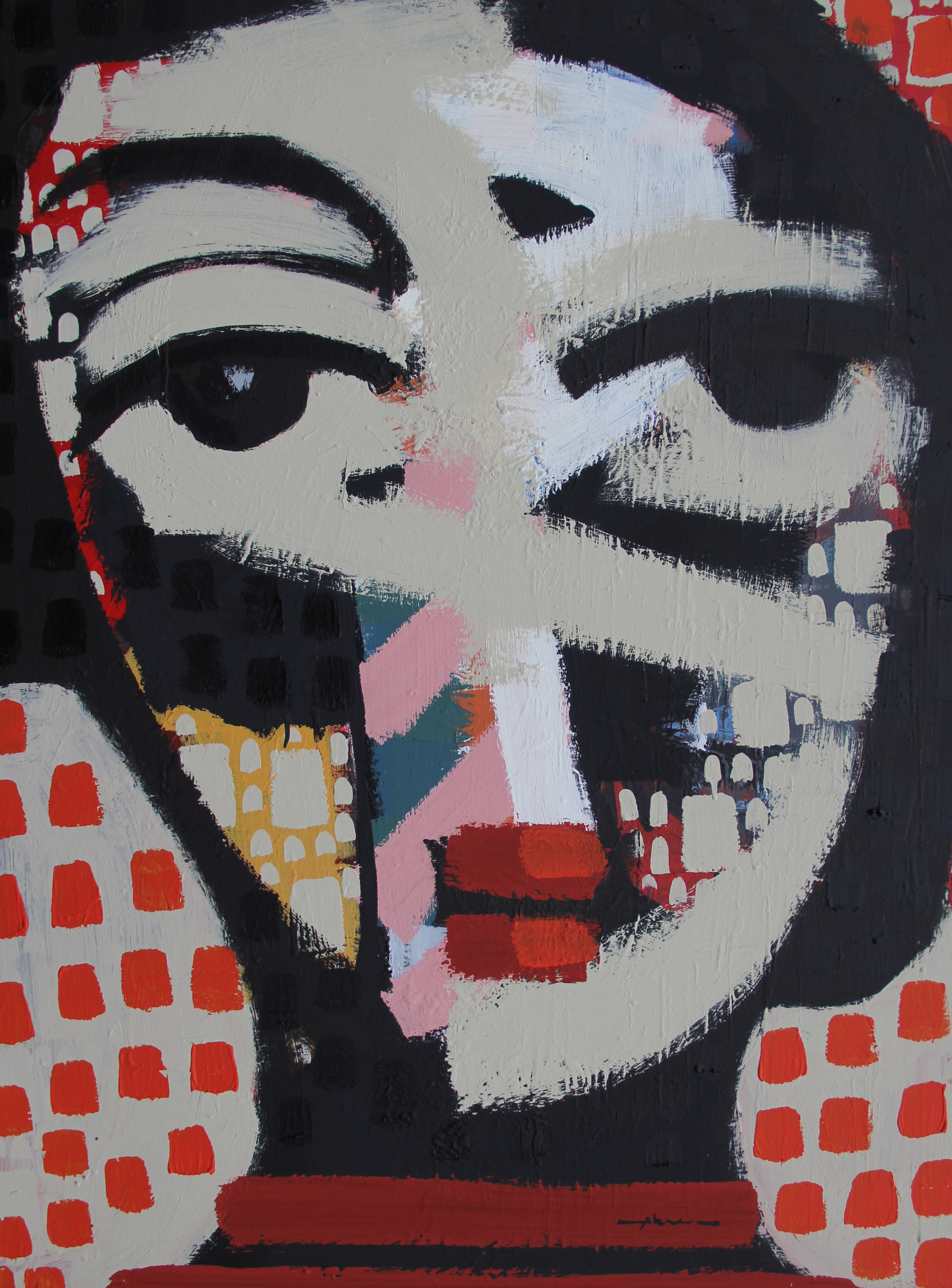 Estudio de la Personlidad, Oscar Abreu